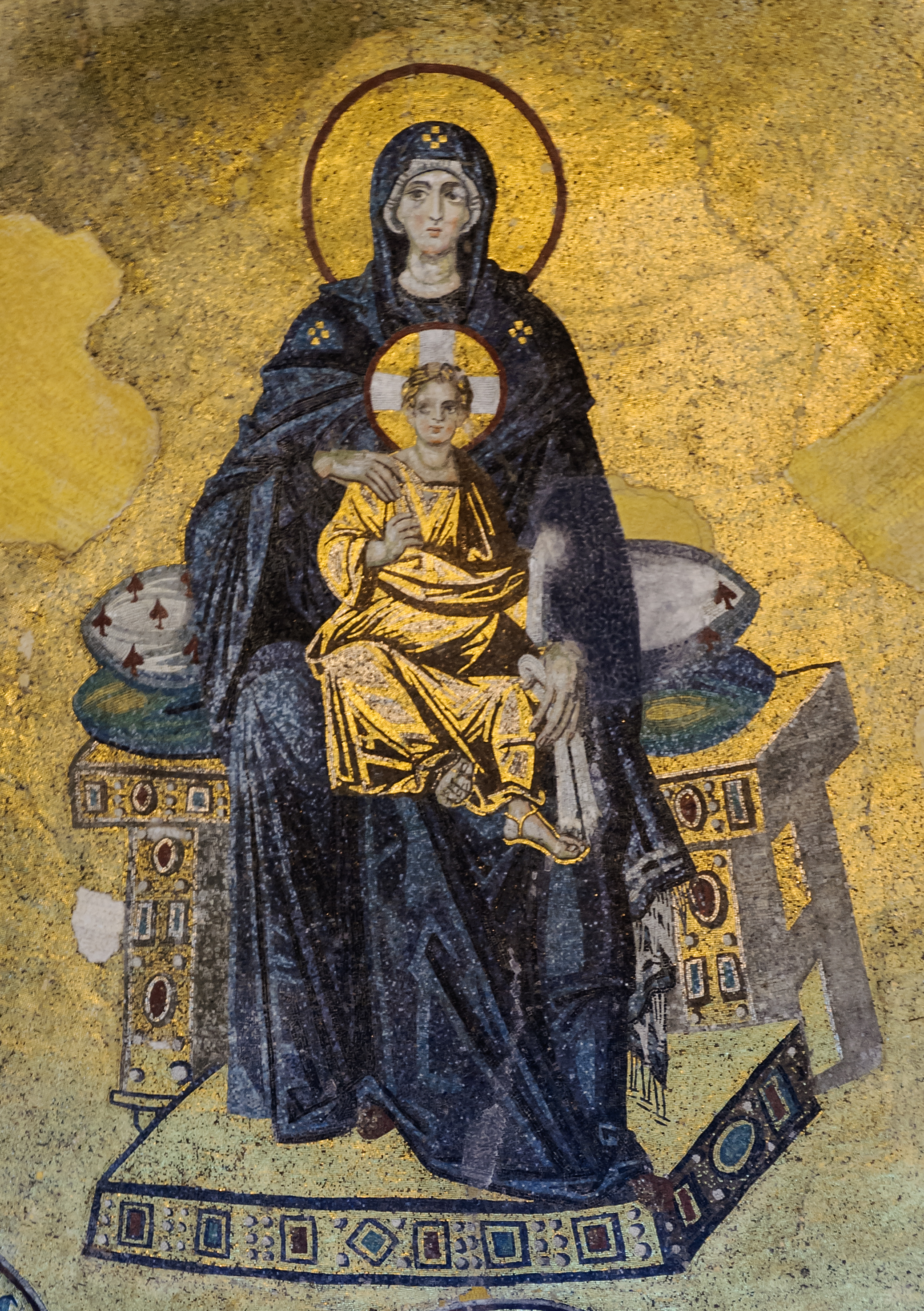 The Virgin and Child (Theotokos) mosaic, in the apse of Hagia Sophia (Istanbul, Turkey) 867